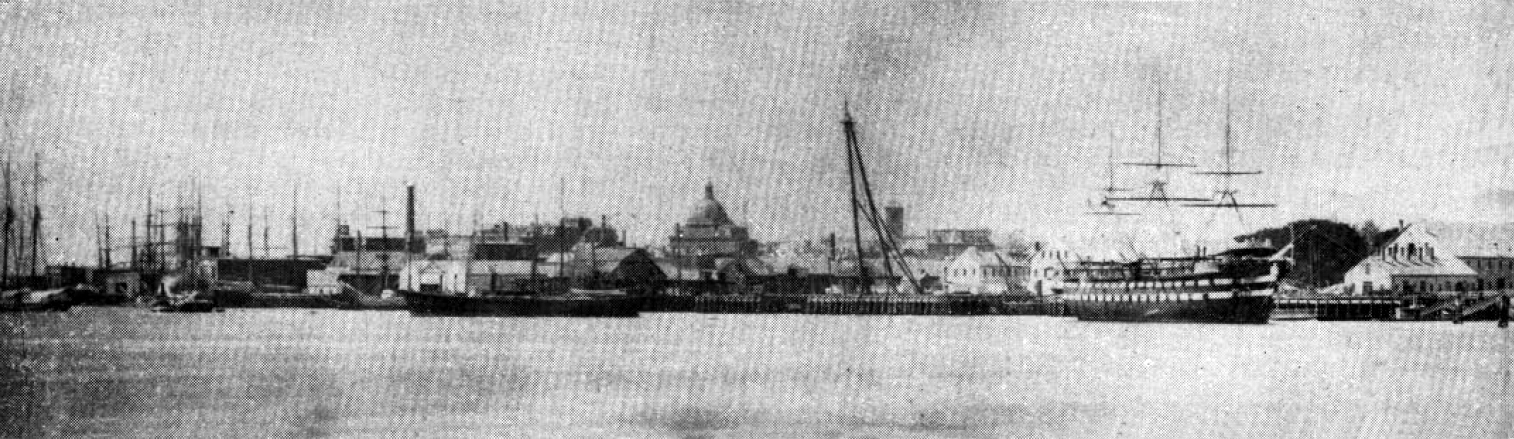 View of the waterfront of the U.S. Boston Navy Yard, Massachusetts (USA), in the 1870s. Note the receiving ship USS Ohio in the right foreground.